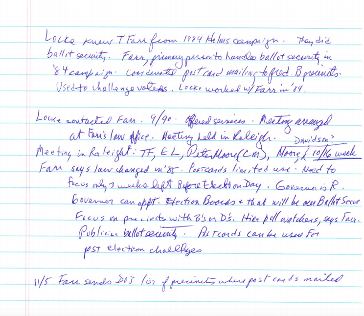 Handwritten notes taken by Gerald Hebert as part of the U.S. Department of Justice Civil Rights Division's investigation of the 1990 "ballot security" program undertaken by the Helms campaign, documenting Thomas Farr's participation in a planning meeting prior to the postcard mailing. “Locke knew T Farr from 1984 Helms campaign. They did ballot security. Farr, primary person to handle ballot security in '84 campaign. Coordinated postcard mailing to pred. B precincts. Used to challenge voters. Locke worked w/ Farr in '84. Locke contacted Farr. 9/90. Offered services. Meeting arranged at Farr's law office. Meeting held in Raleigh. Meeting in Raleigh: TF [Thomas Farr], EL [Ed Locke], Peter Moore, (CM [campaign manager]), Moore, Davidson? 10/16 week. Farr says law changed in '85. Postcards limited use. Need to focus only 3 weeks left before Election Day. Governor is R. Governor can appt. Election Boards & that will be our Ballot Secur. Focus on precincts with B's or D's. Hire poll watchers, says Farr. Publicize ballot security. Postcards can be used for post election challenges. 11/5 Farr sends DOJ list of precincts where post cards mailed”